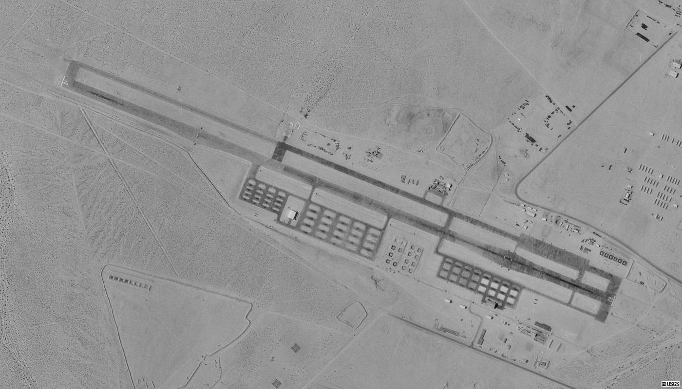 USGS digital orthophoto of Twentynine Palms Strategic Expeditionary Landing Field (SELF) in California, United States.